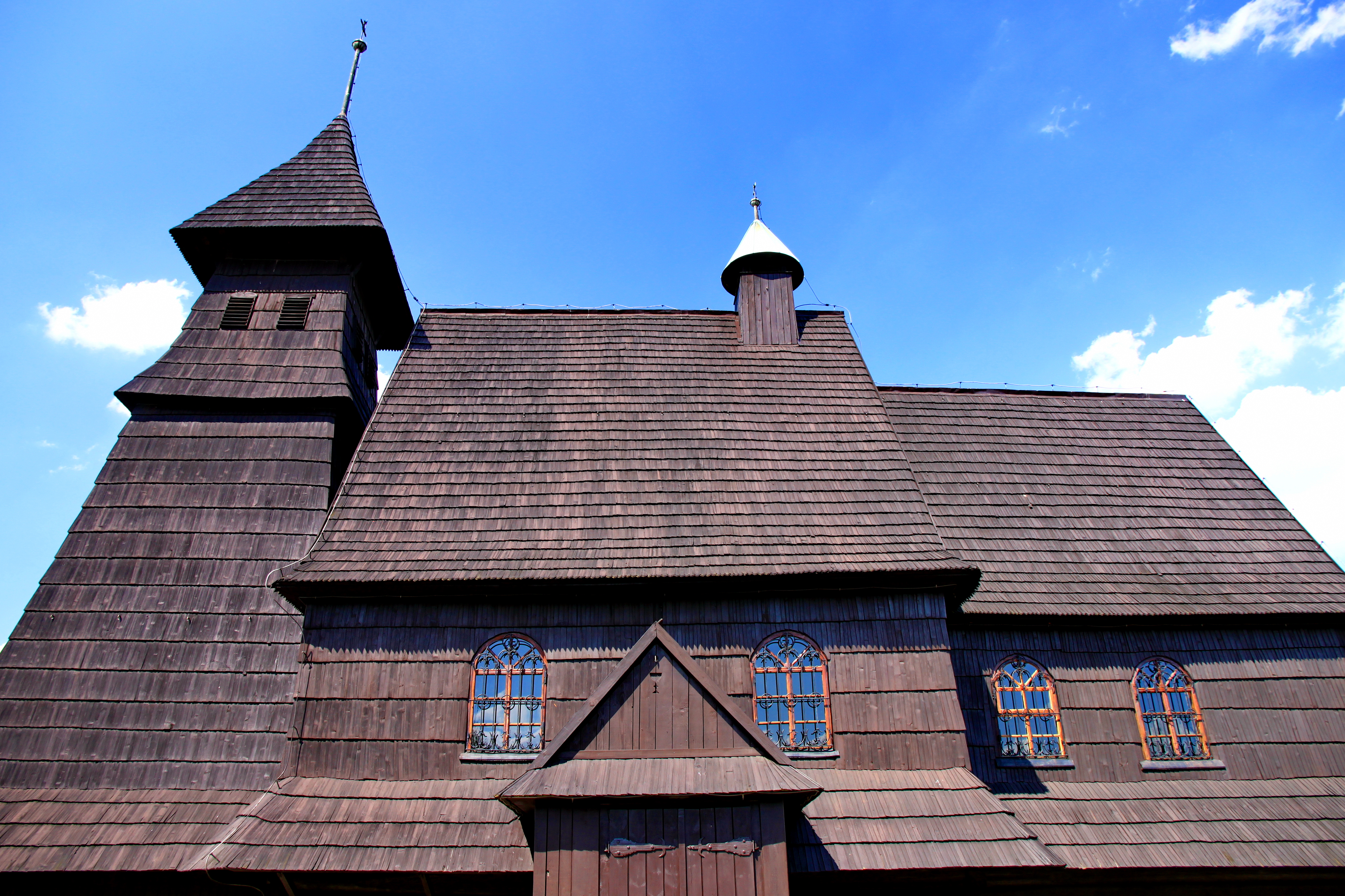 Palowice, Holy Trinity parish church, build in 1606, 1981